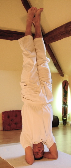 Yoga postures Shirshasana